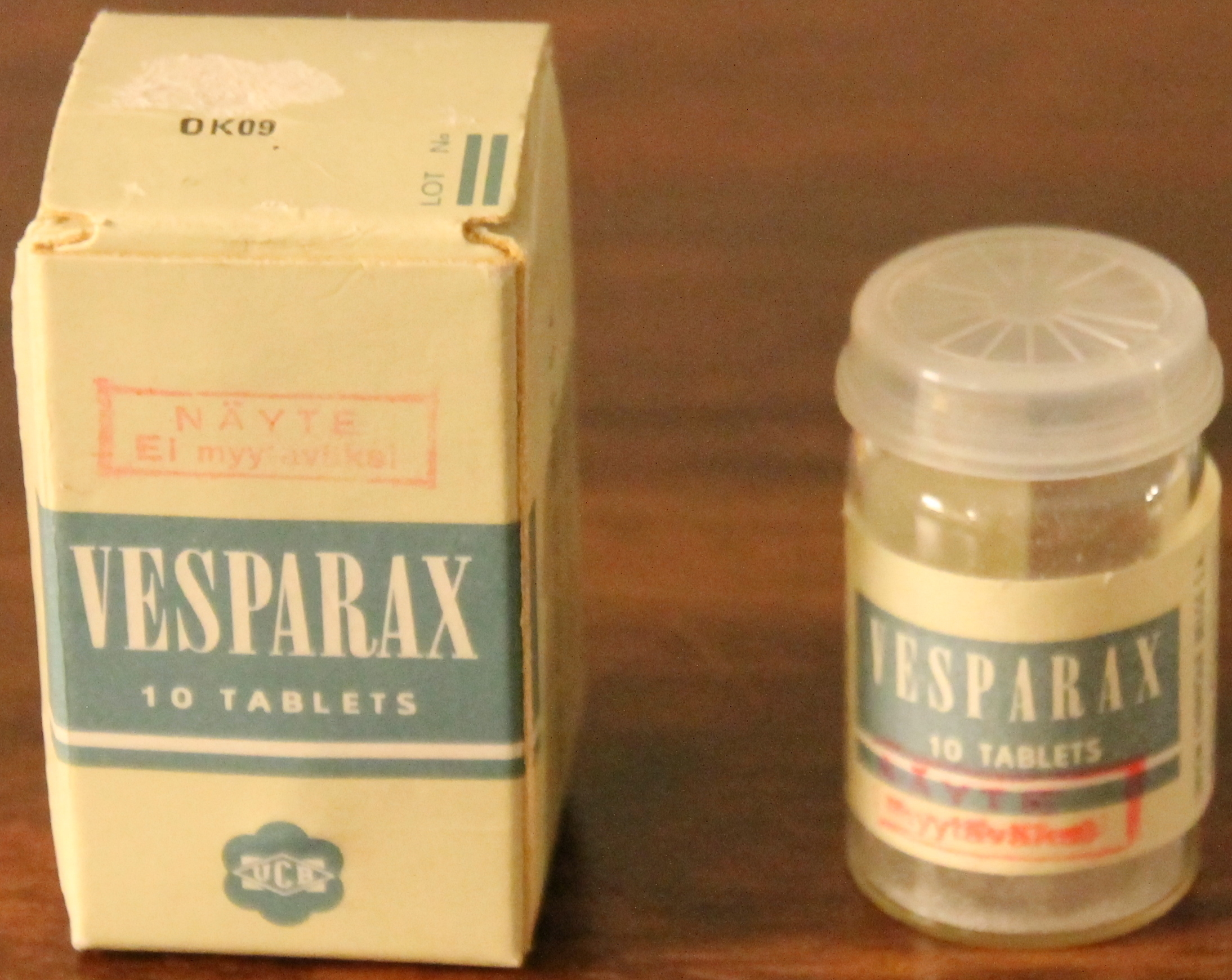 Old Vesrapax-package.